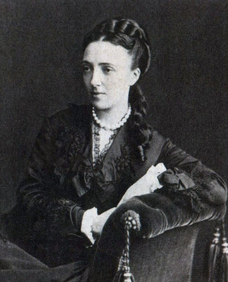 Olga Feodorovna, Grand Duchess of Russia